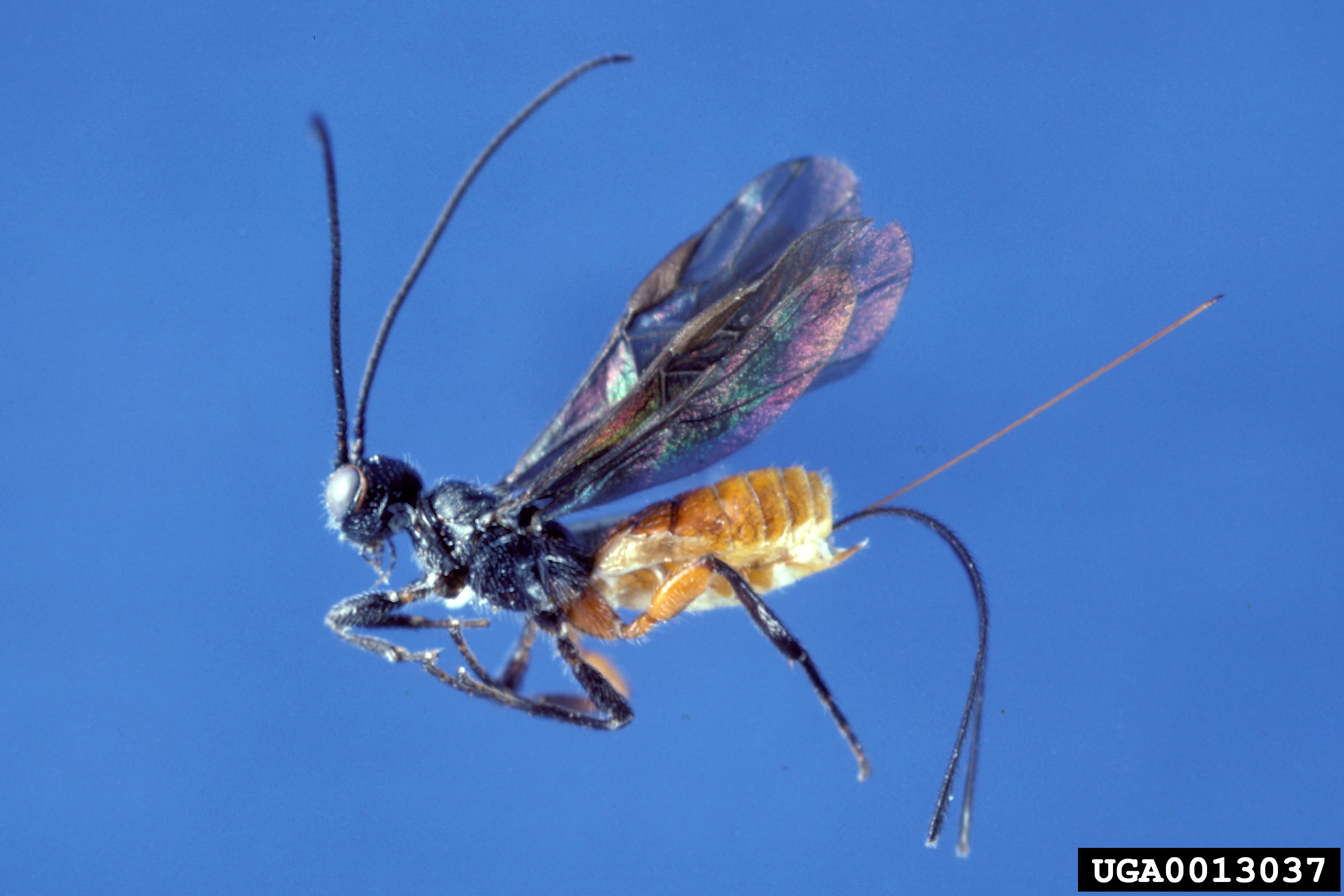 Insect species Coeloides pissodis